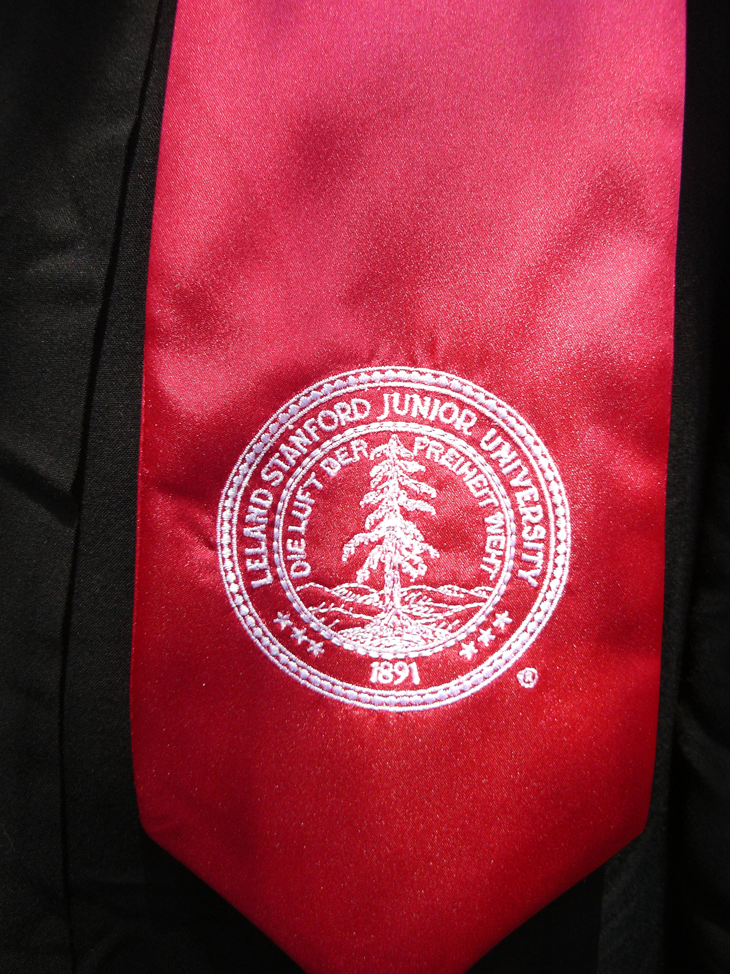 The stole worn by Stanford University undergraduates.